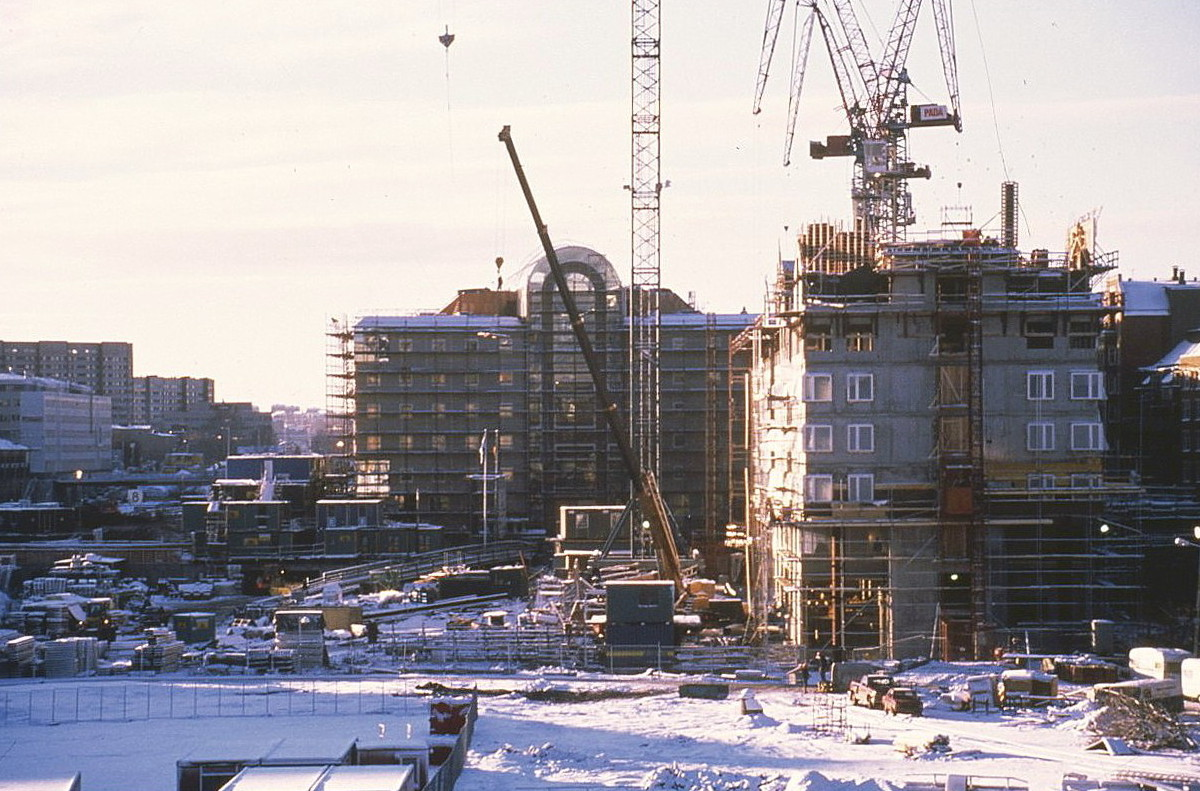 FOTOGRAFISödermalm. Vy västerut över det blivande Södra Stationsområdet. Stationshuset och kontorshus under byggnad. 1988-1988FOTOGRAF: Holmberg, Anders.BILDNUMMER: Dia 2215Stadsmuseet i Stockholm